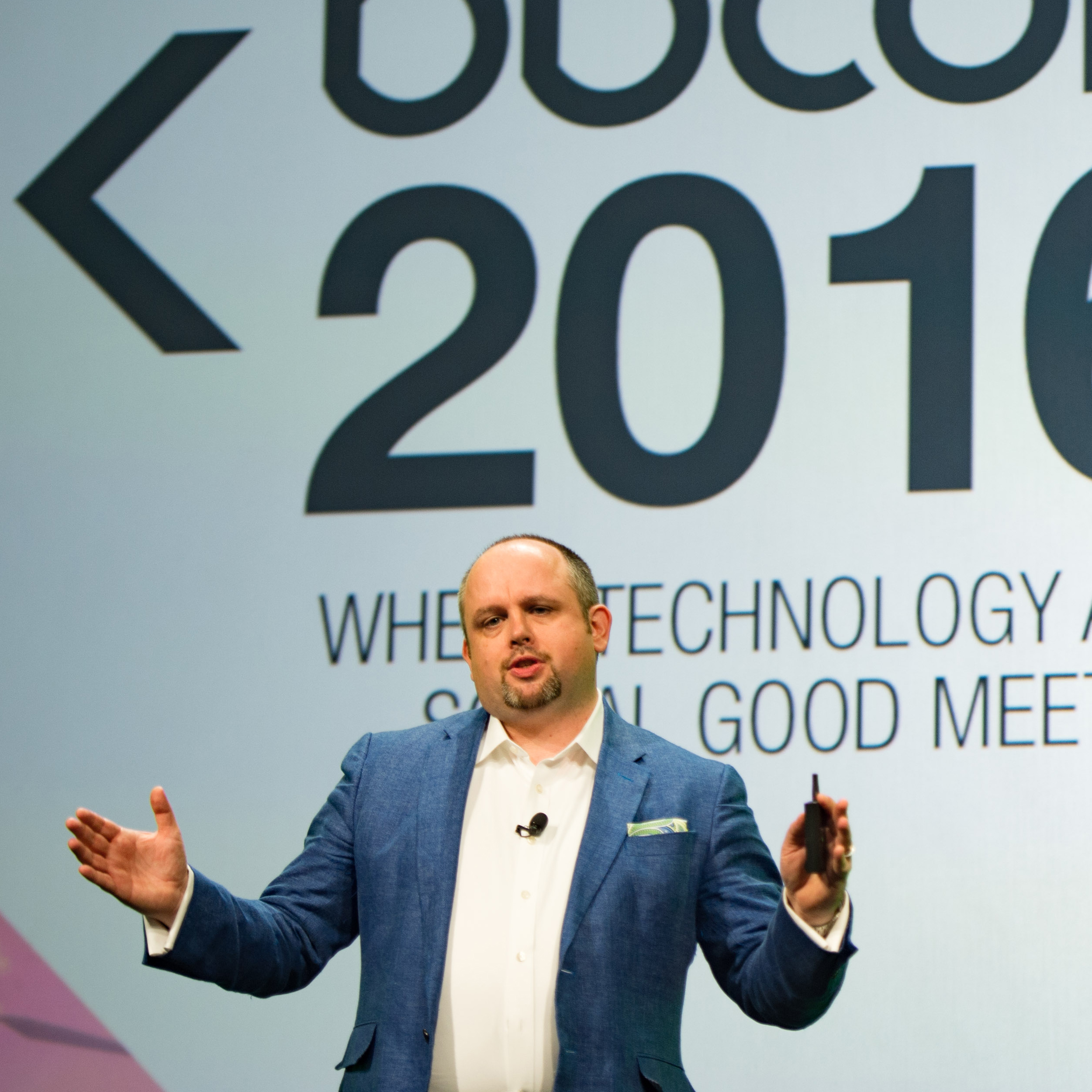 Steve MacLaughlin speaking at BBCON 2016